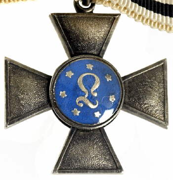 Order of Louise (Luisen-Orden), Second Class, model 1865. Detail of badge.